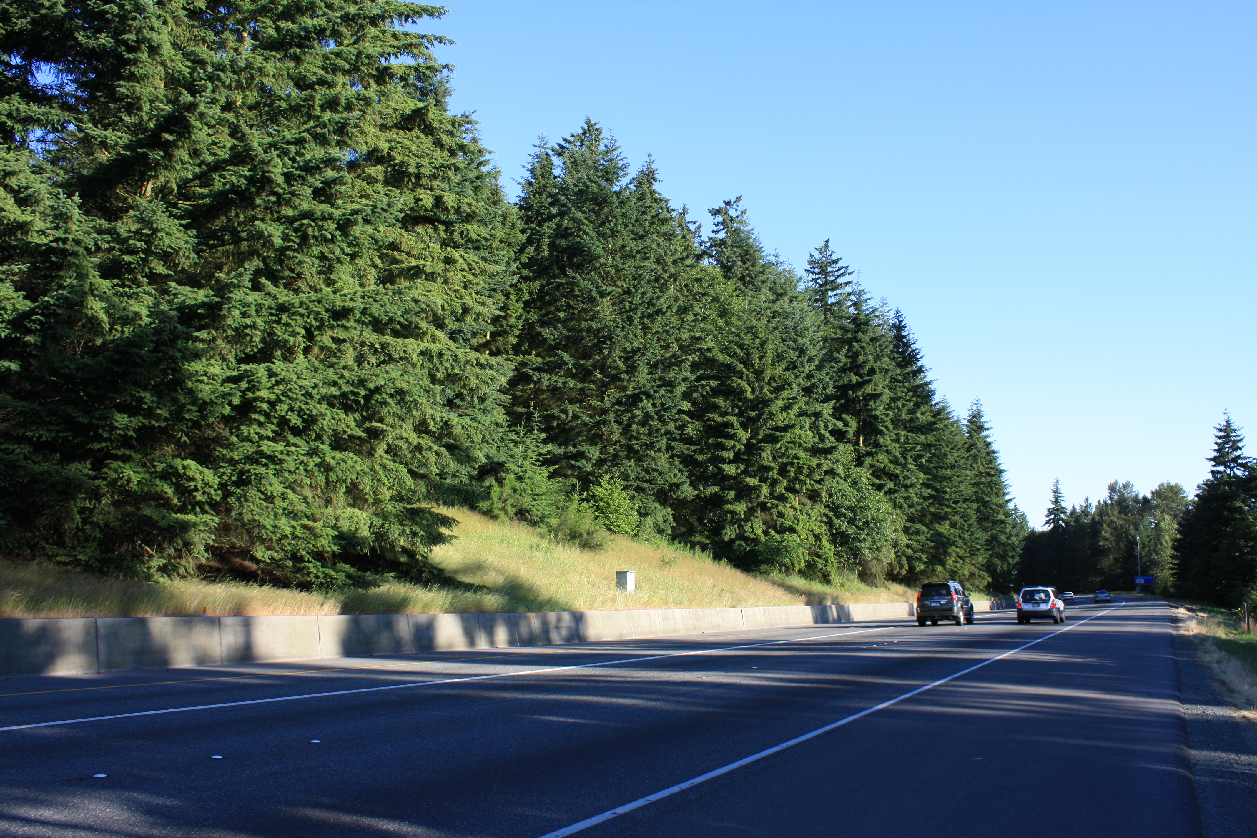 A typical scenic view on just about any Washington state freeway. This is northbound I-405 in Bothell, WA.